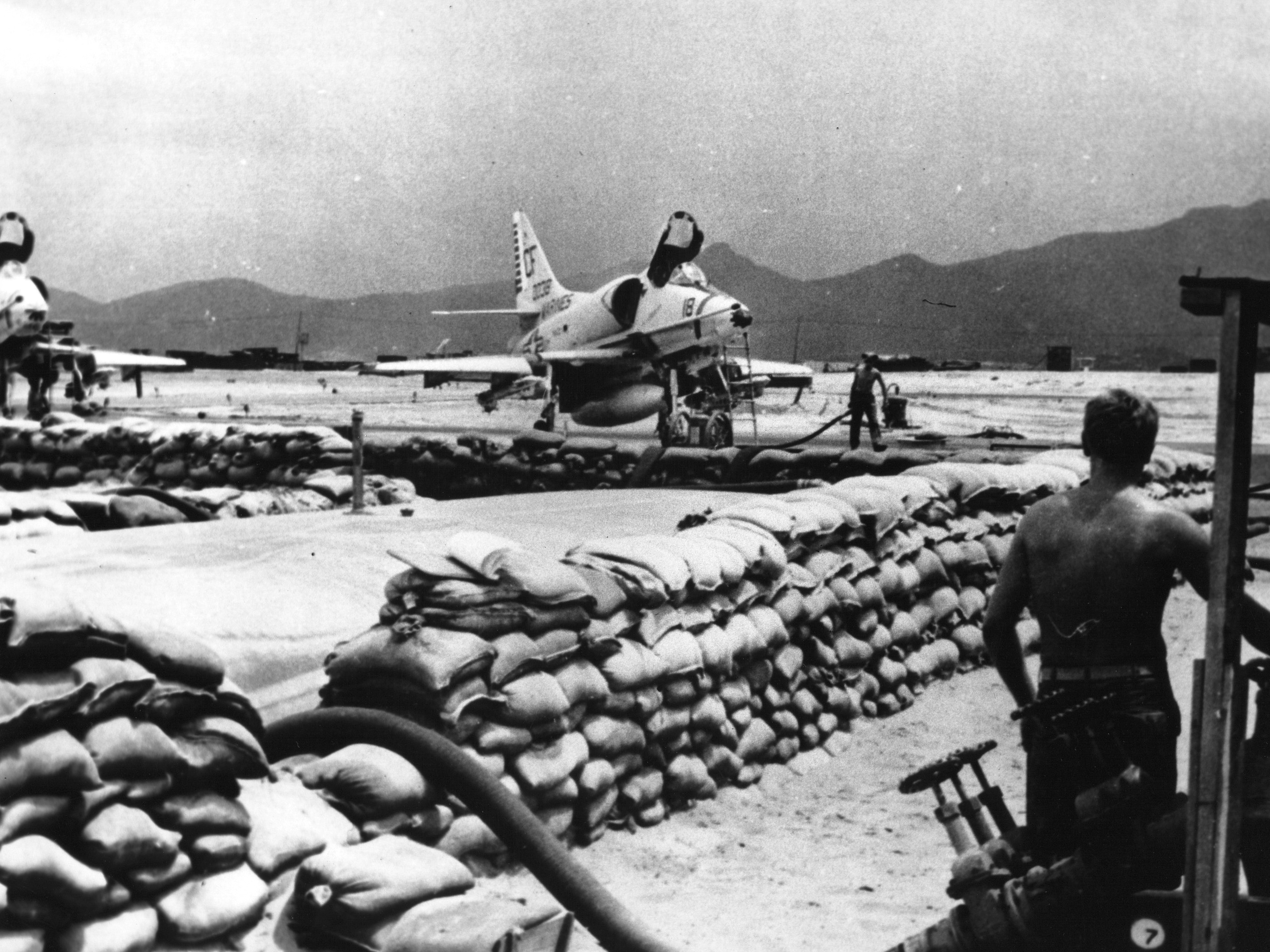 Two U.S. Marine Corps Douglas A-4E Skyhawk of Marine Attack Squadron 211 (VMA-211) "Wake Island Avengers" refuel at Chu Lai air base, Vietnam, in 1967. Note: the aircraft on the right appears to be BuNo 150038 which was shot down by ground fire on 28 August 1967.